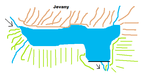 Jevanský pond schema. Source mapy.cz - tourist maps.